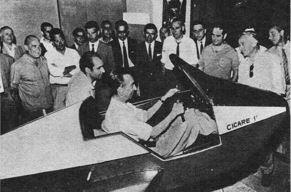 Plane flight simulator developed by Augusto Cicaré